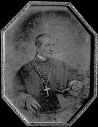 František Antonín Gindl (1841), photo: Bedřich Franz, daguerrotype